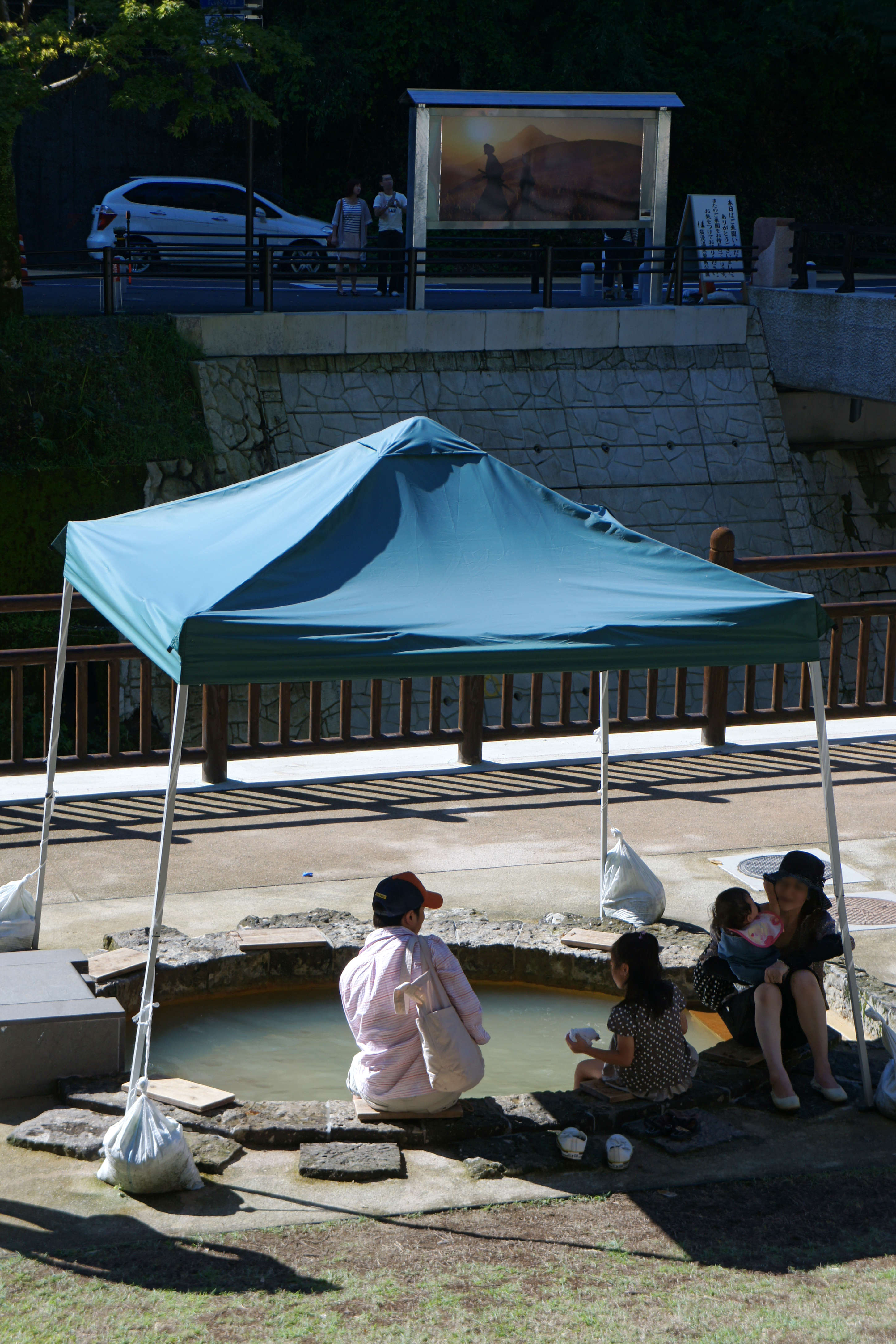 Shiobitashi Onsen in Kirishima, Kagoshima prefecture, Japan.